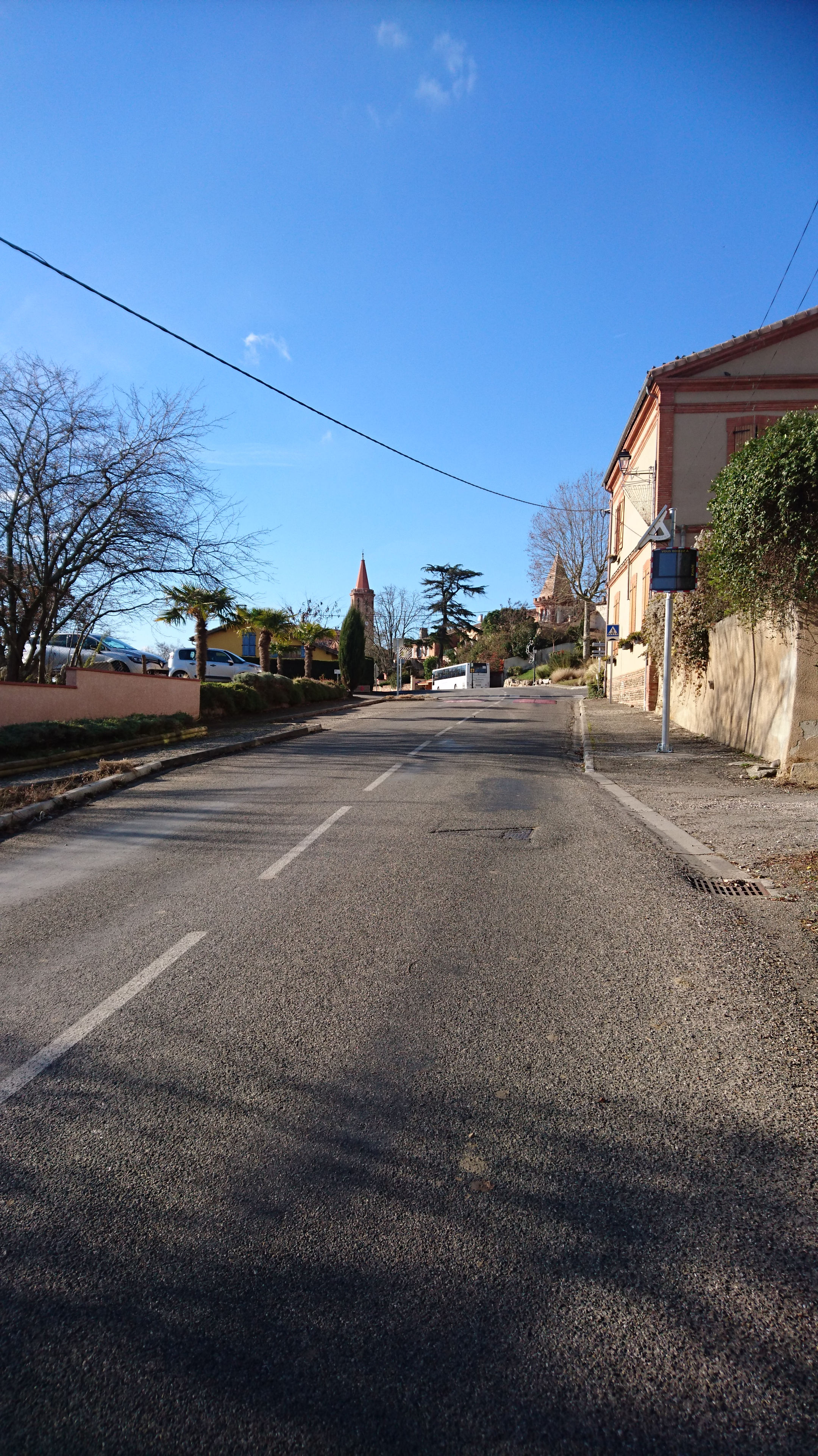 Le Castéra village departemental road entry. The right corner building is the city council. 25km far from Toulouse in South West of France.